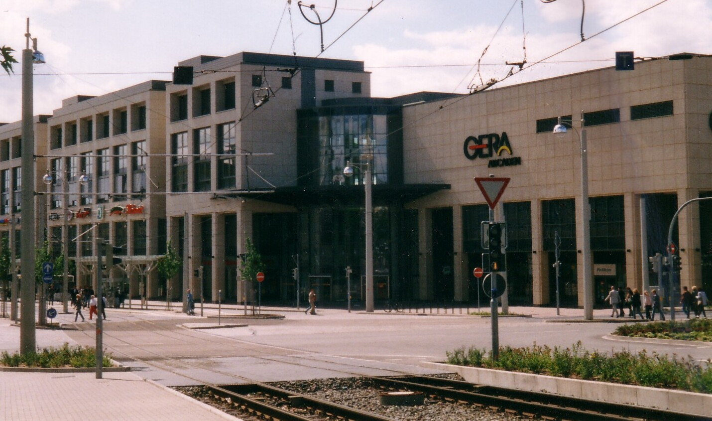 Gera Arcaden shopping mall in Gera, Germany, ca. six months after opening